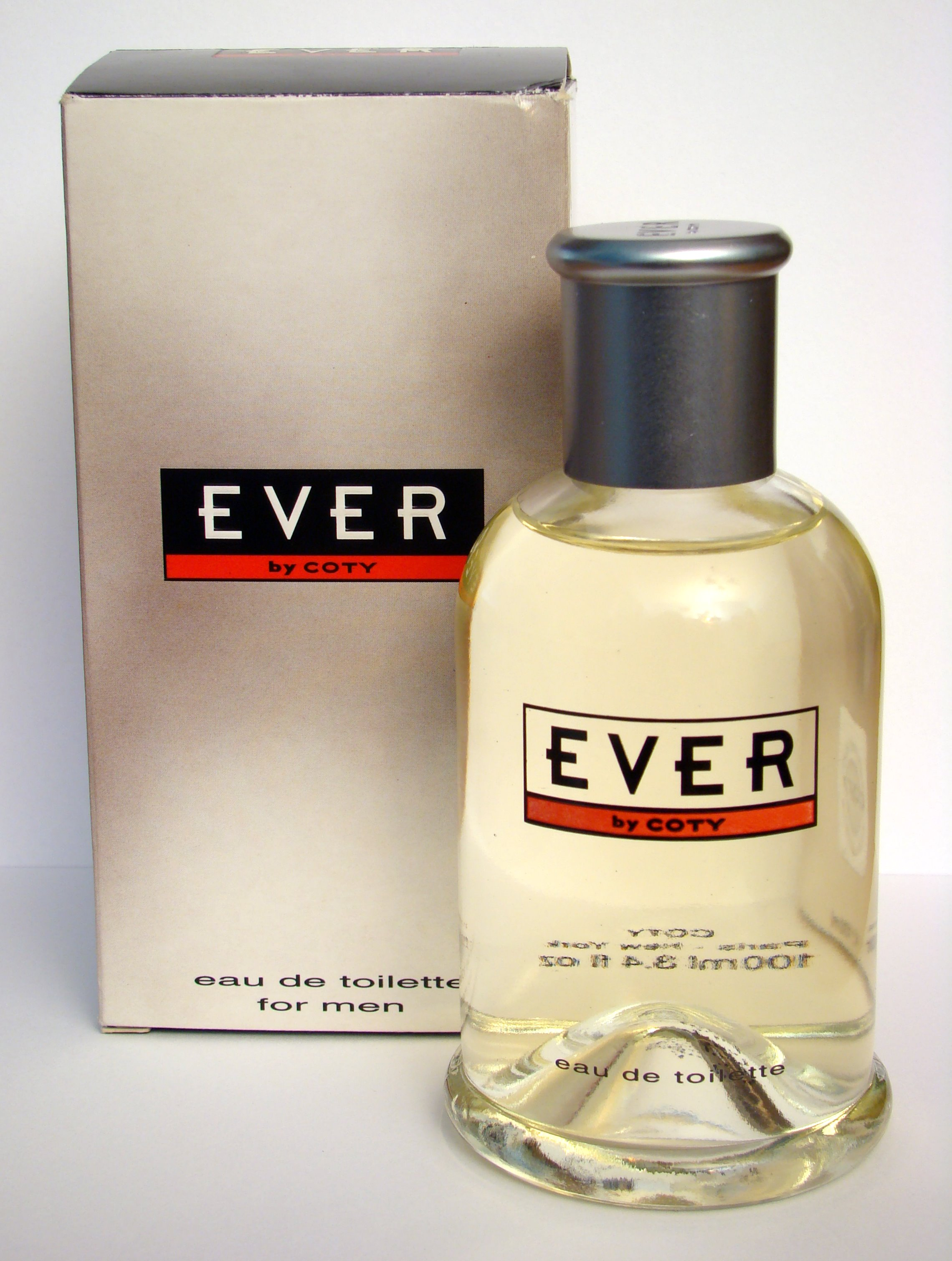 Ever by Coty (case-bottle perfume)